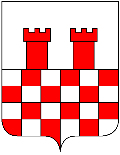 Coat of arms of the municipality of Feldthurns, South Tyrol.